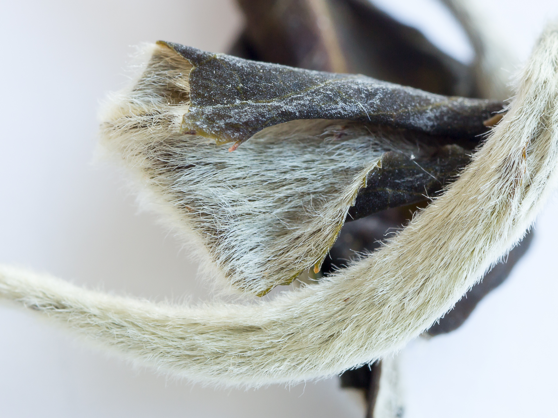 Bud of white tea with fine silvery-white hairs